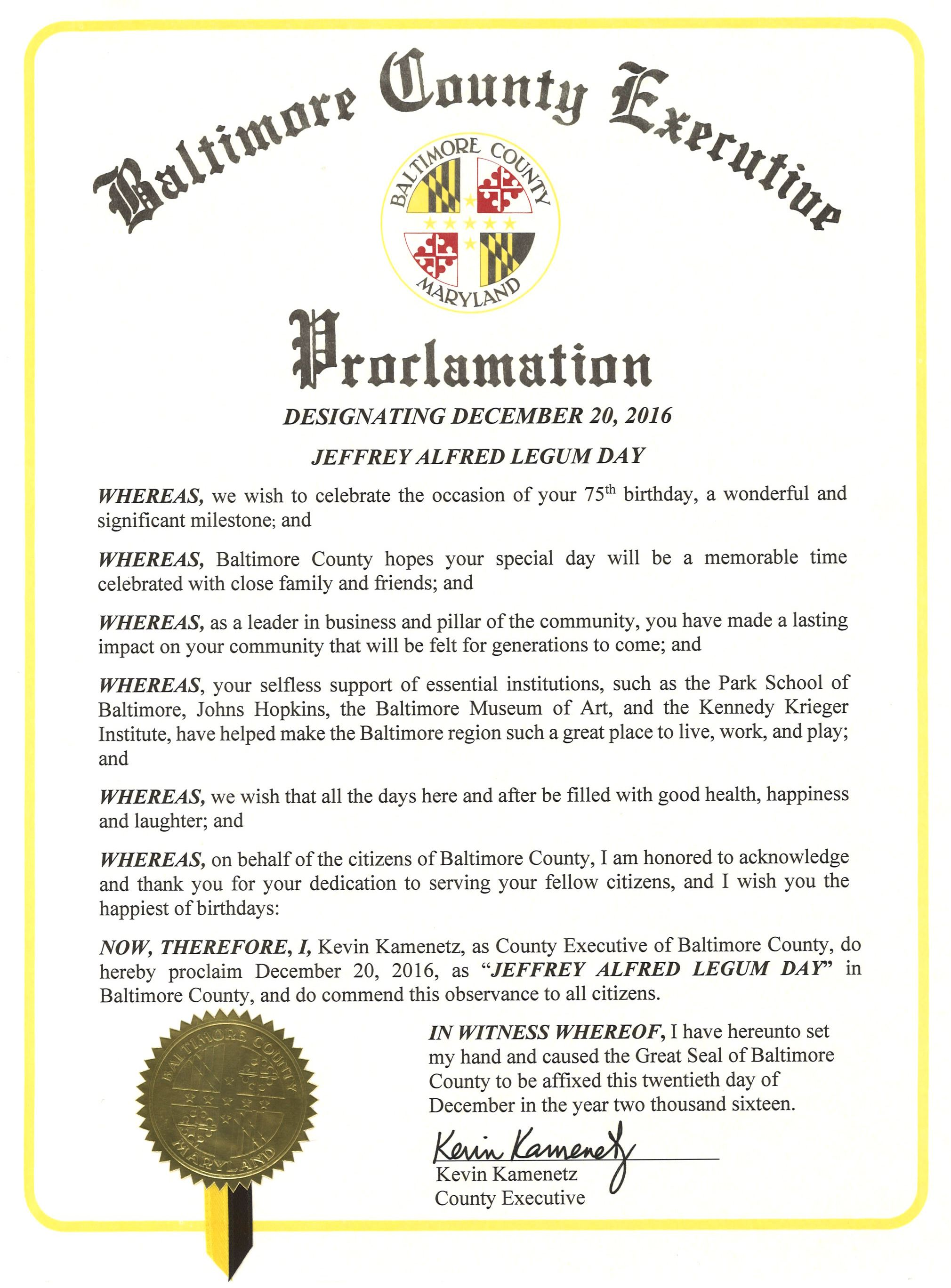 Proclamation - Jeffrey Alfred Legum Day